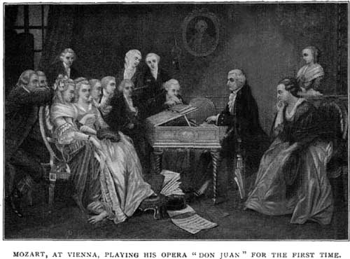 Mozart at Vienna playing his Opera Don Juan for the first time, group portrait